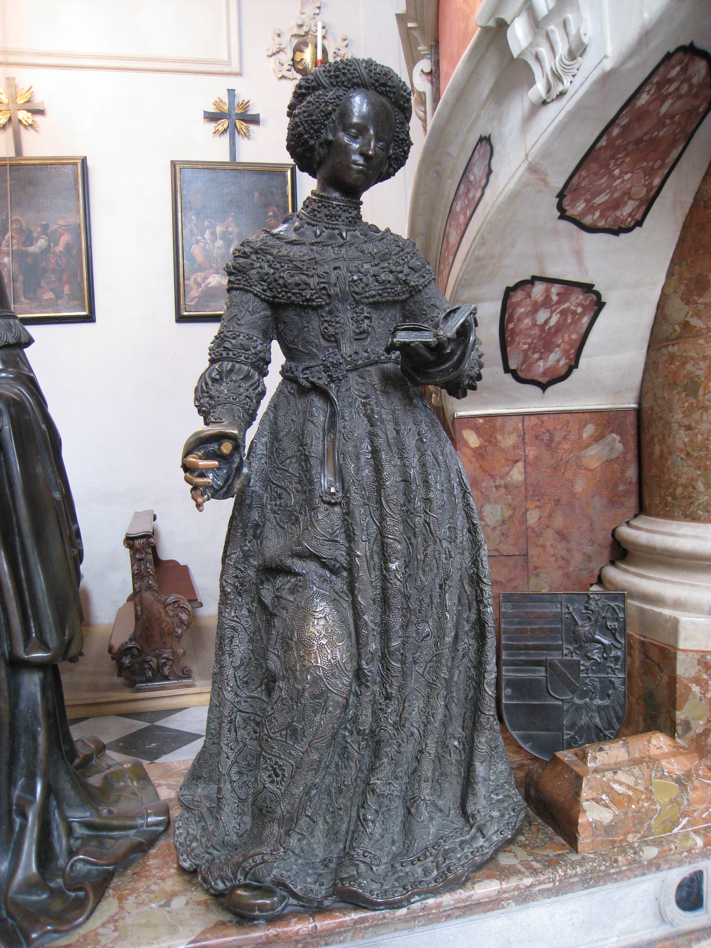 Statue within Hofkirche, Innsbruck, Austria. This statue is old enough so that it is not covered by any copyright.